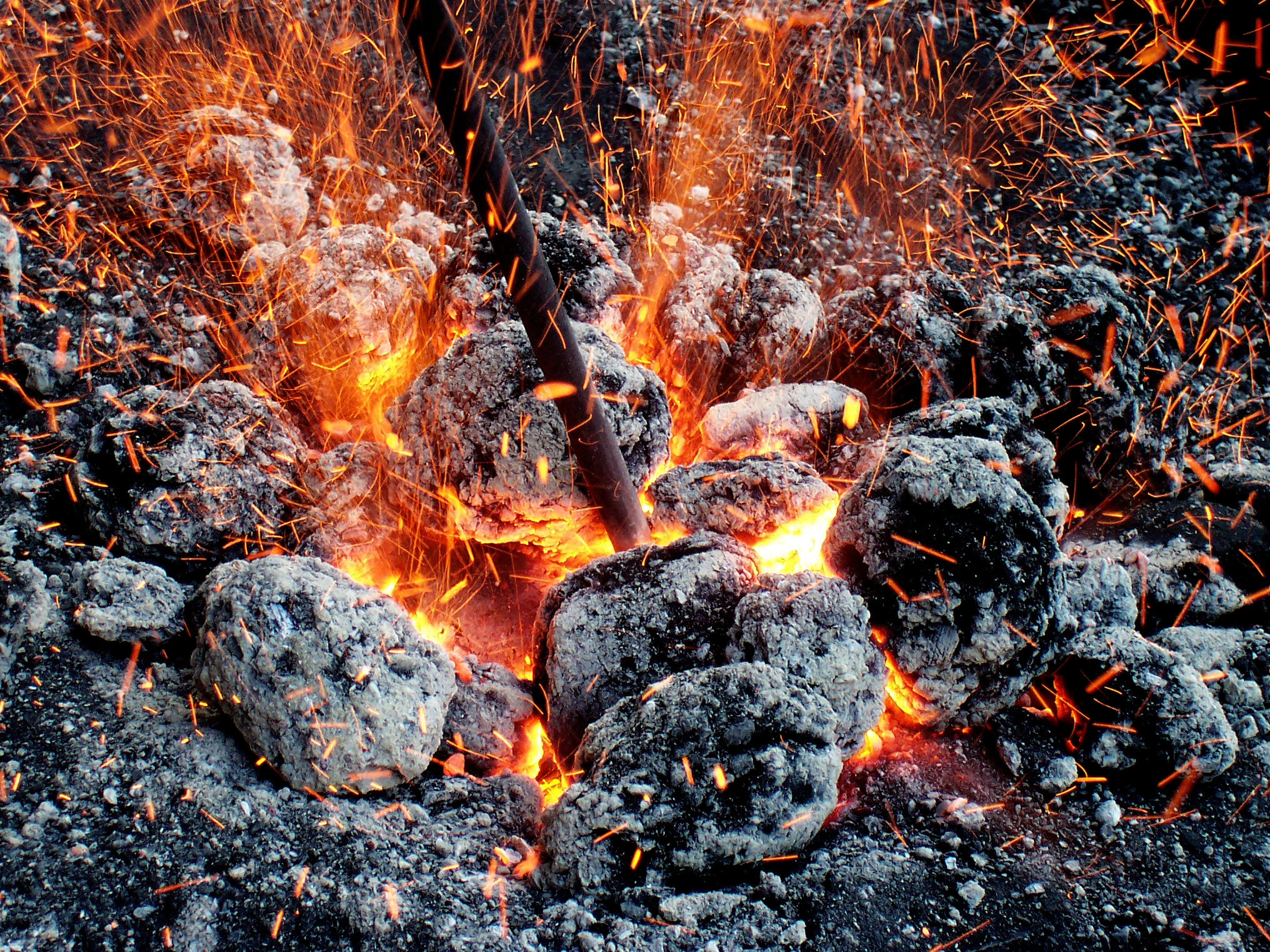 forge, smith's hearth, fire, sparks